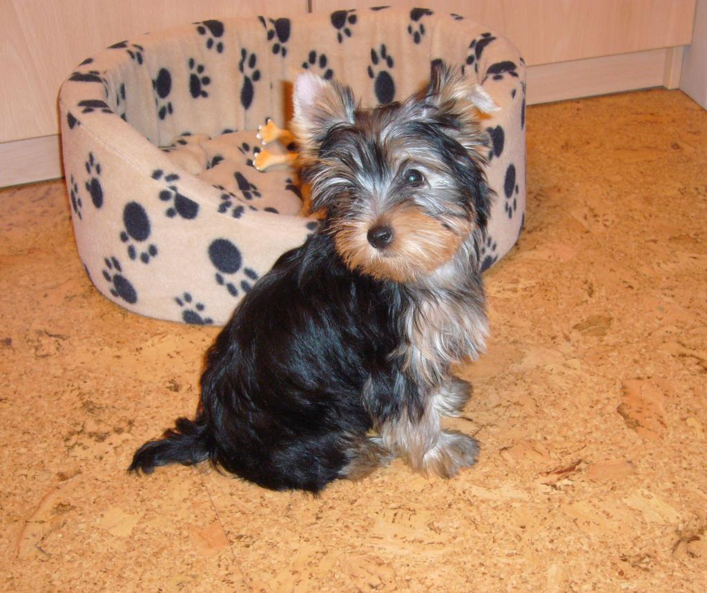 Yorkshire Terrier Puppy called Unica, age 3 months